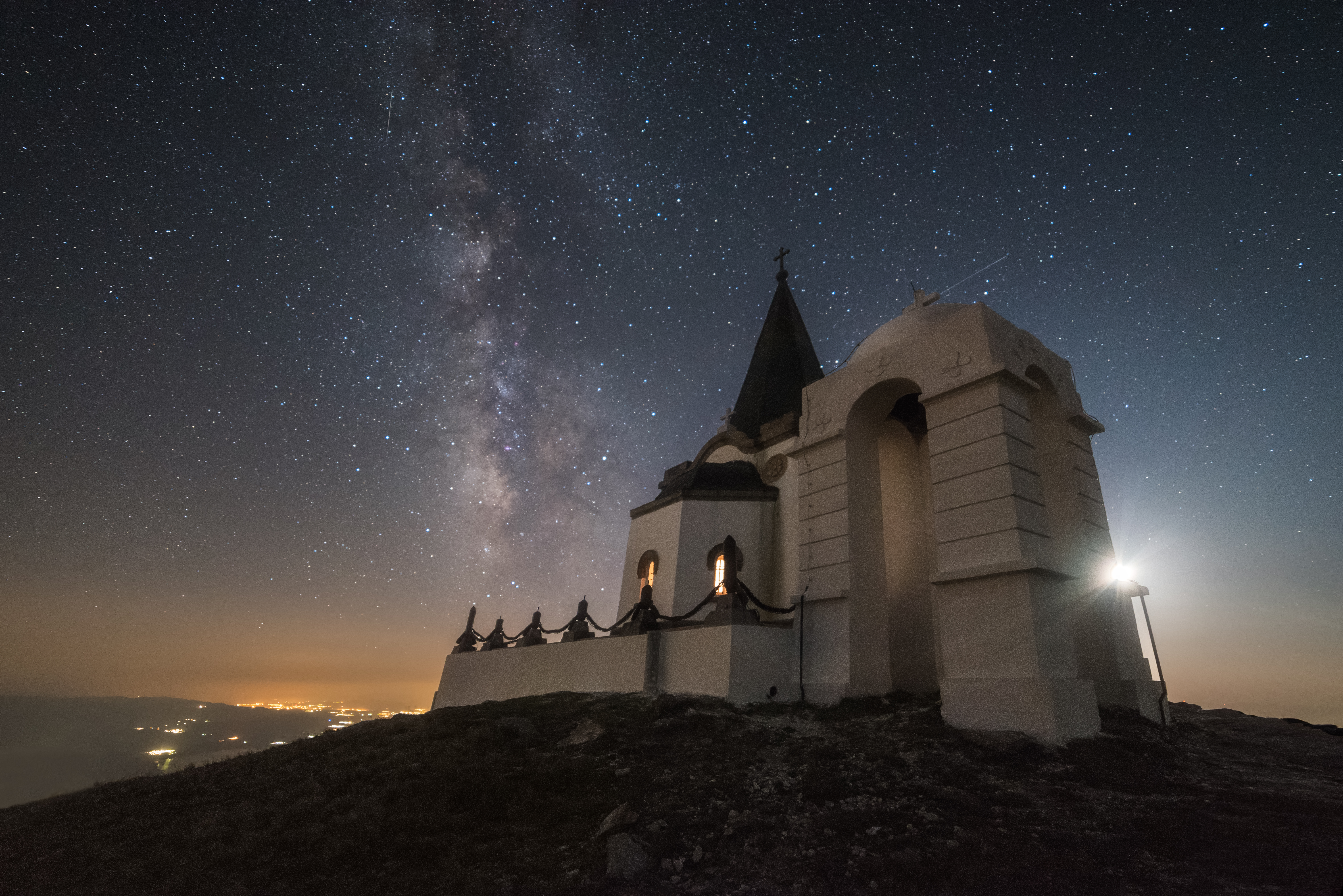 Profitis Ilias Chapel at 2524m This is a photography of Natura 2000 protected area with ID GR1240001